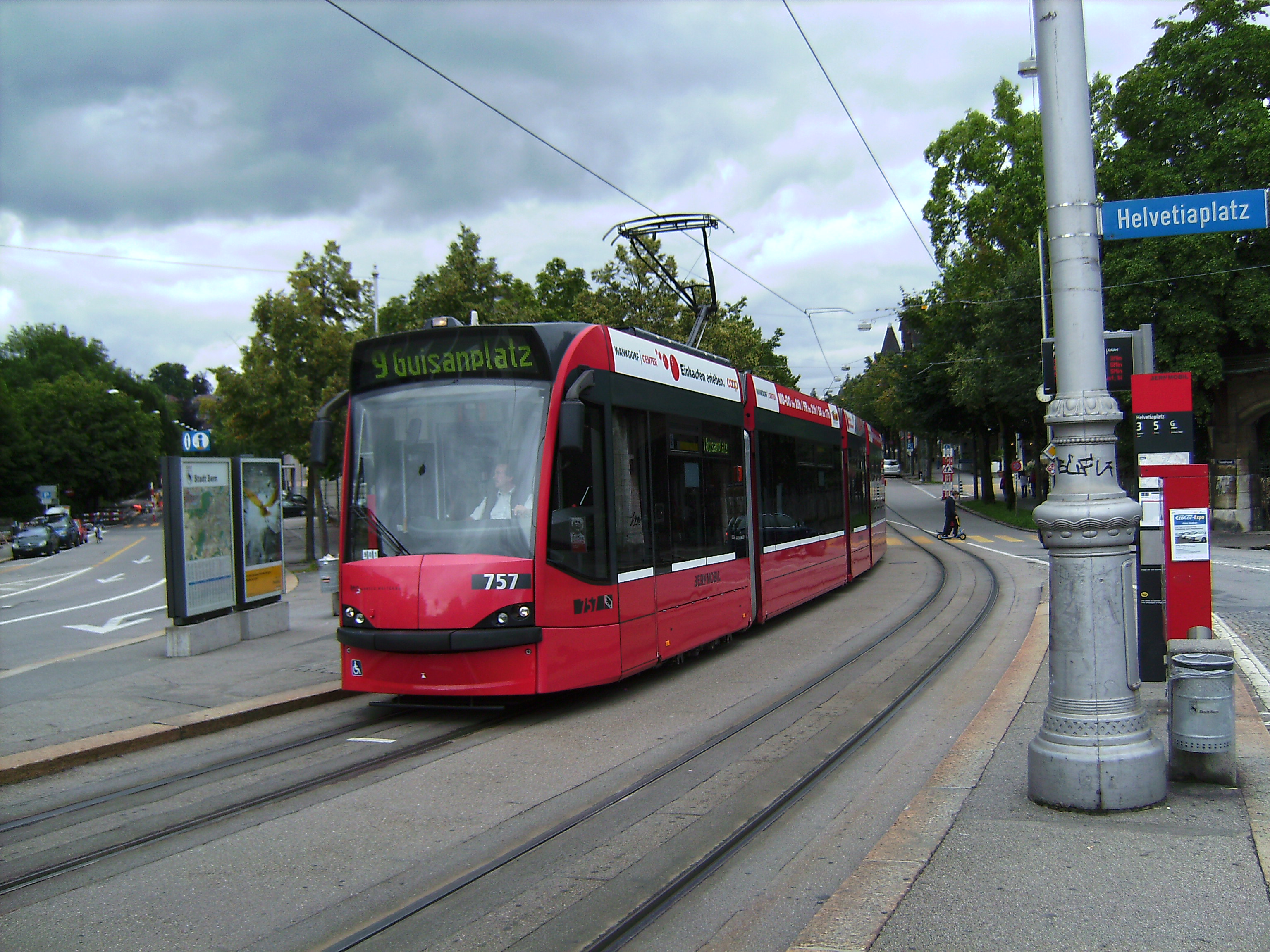 Combino tramway (car No 757) in Bern, Switzerland. Photo taken in the Helvetiaplatz tram stop. Tram line 9.